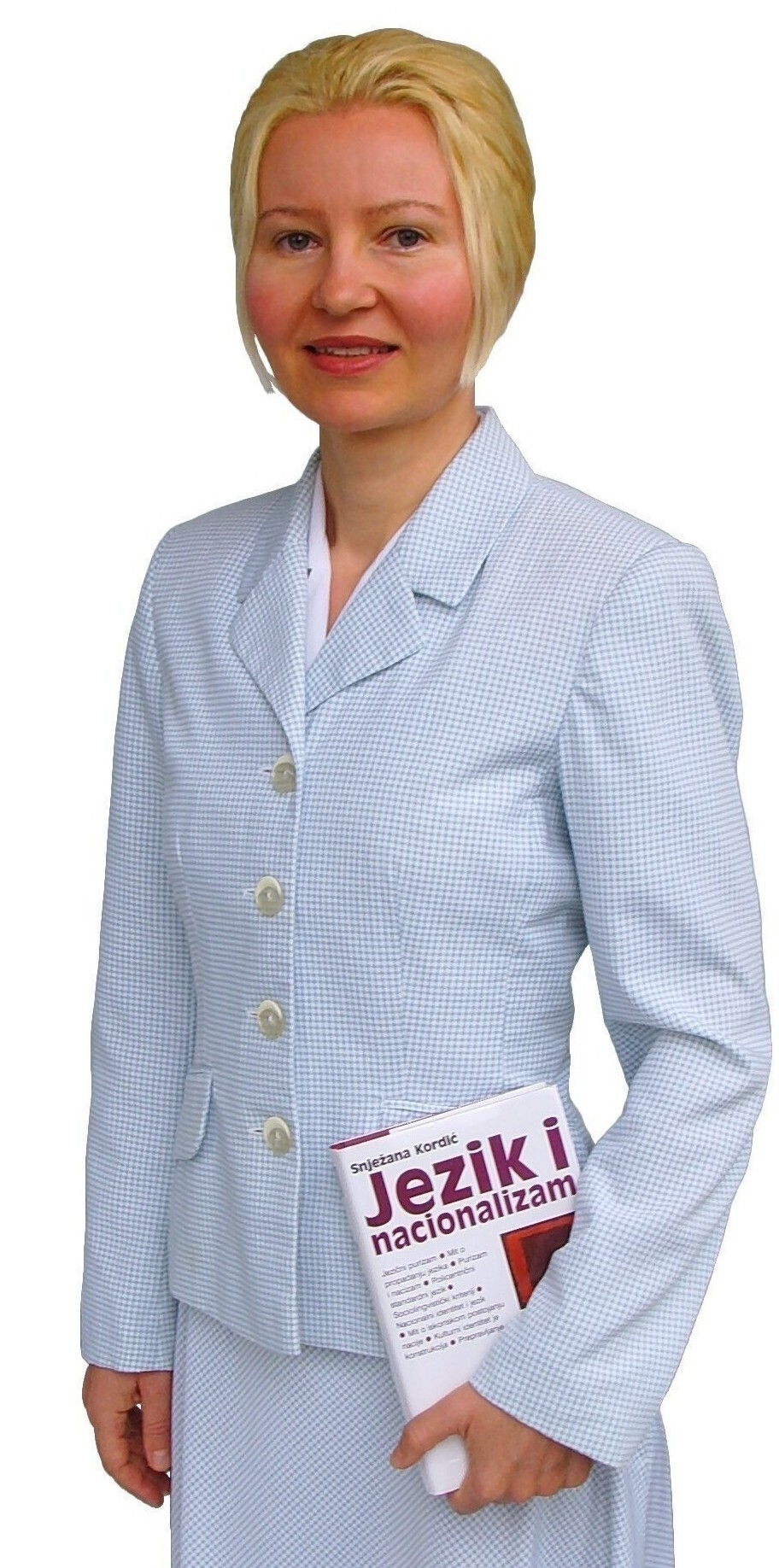 Photo of Snježana Kordić